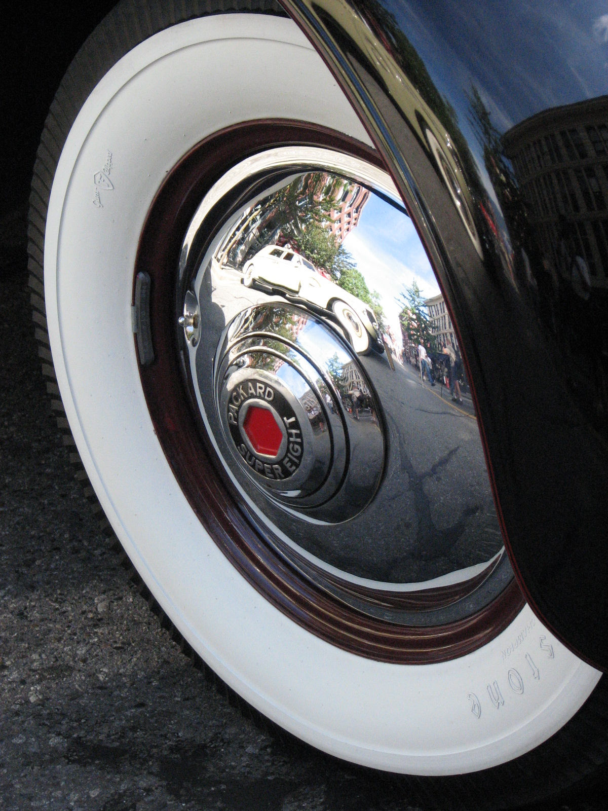 The Steamwork Concours d'Elegance Classic Car Show 2007 in Gastown.